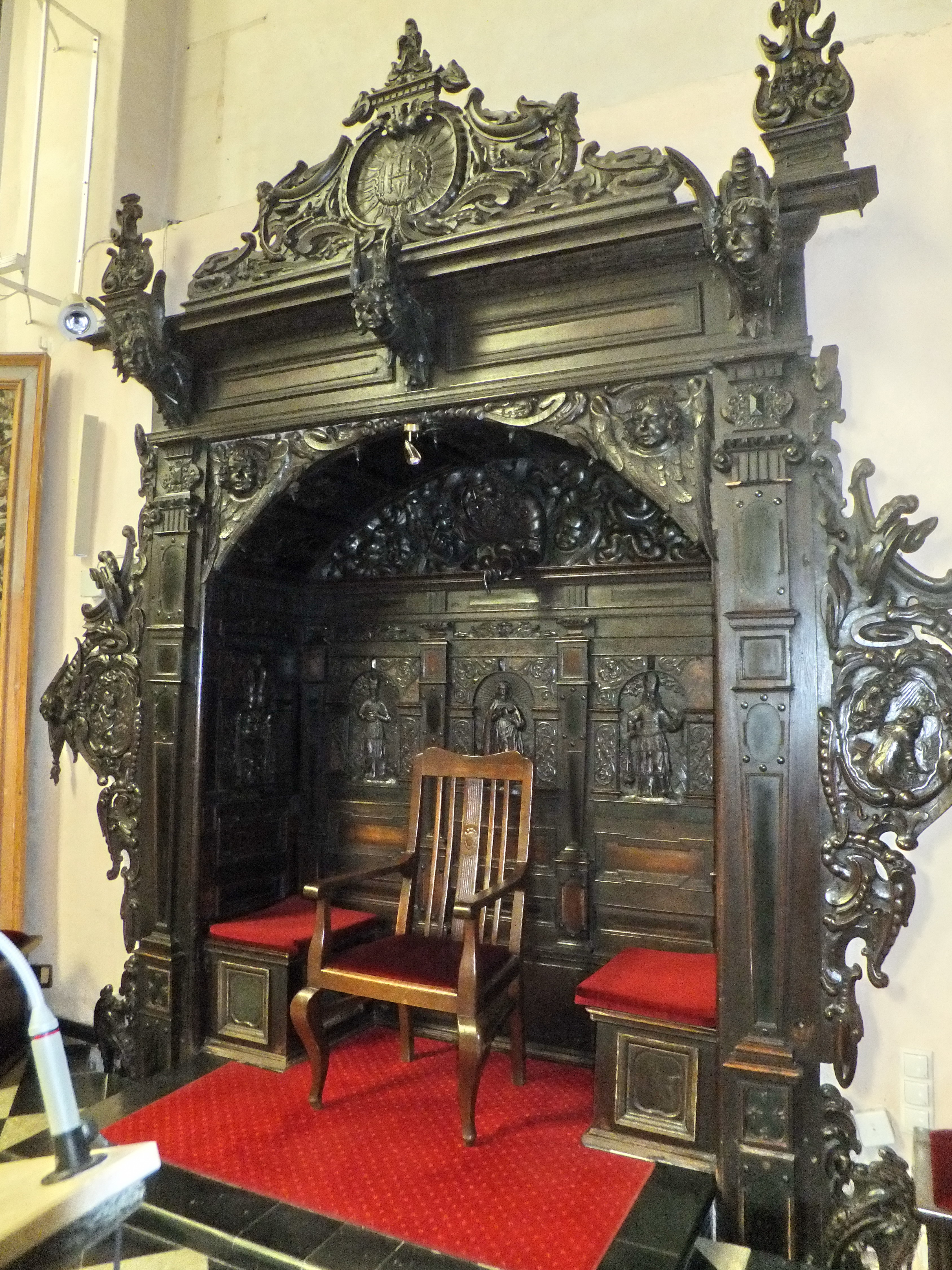 Collegiate Church of the Assumption of the Blessed Virgin Mary in Kartuzy - throne prior, also called the throne of the celebrant, 1677 r.